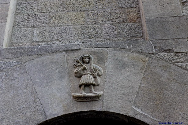 Macebearer in façade of Palau de la Generalitat (Catalan Government Seat) in Barcelona. 15th century - flamboyant gothic style.